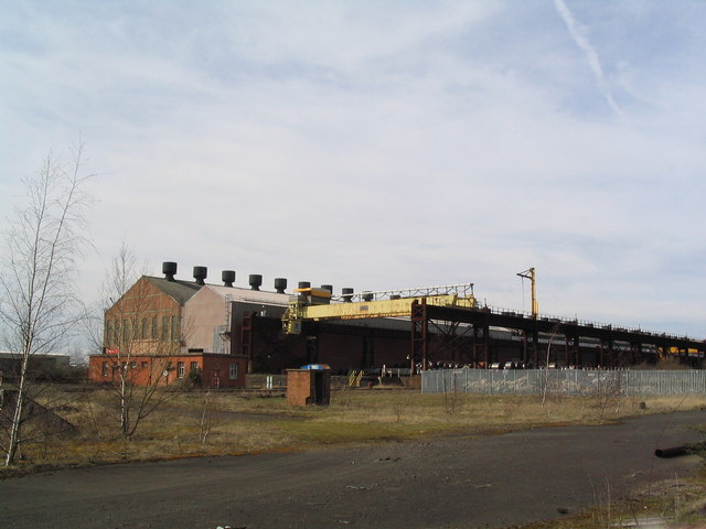 Corby industry - old Part of the once extensive steel mill site. Rolled steel sheets are visible below the gantry crane